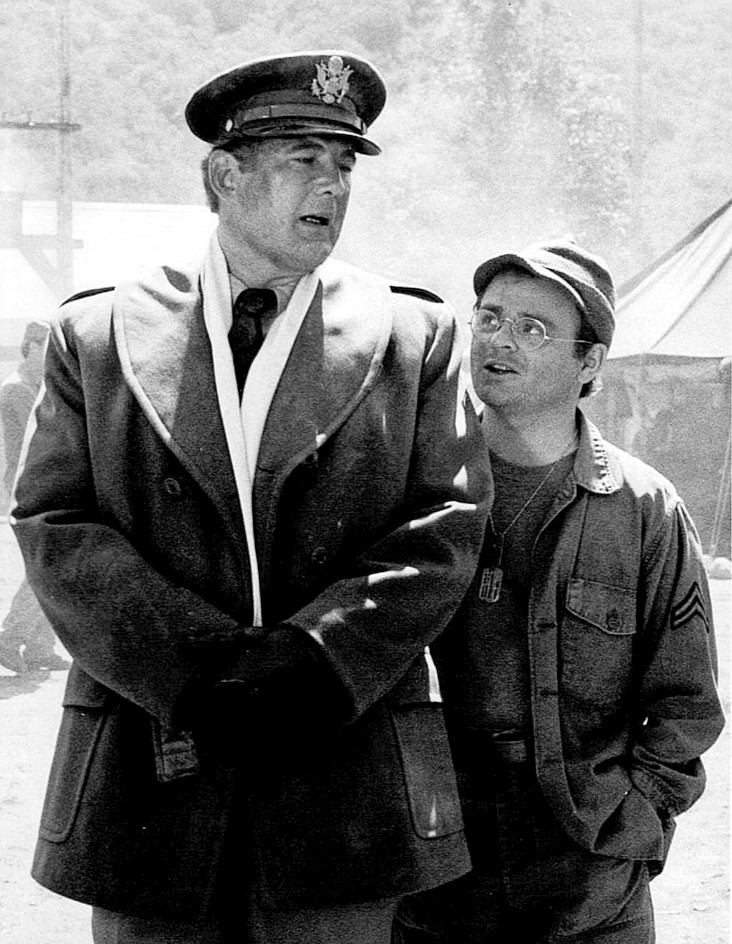 Photo of David Ogden Stiers as Major Charles Winchester and Gary Burghoff as Radar O'Reilly from M*A*S*H. This is the first appearance of the Charles Winchester character on M*A*S*H.